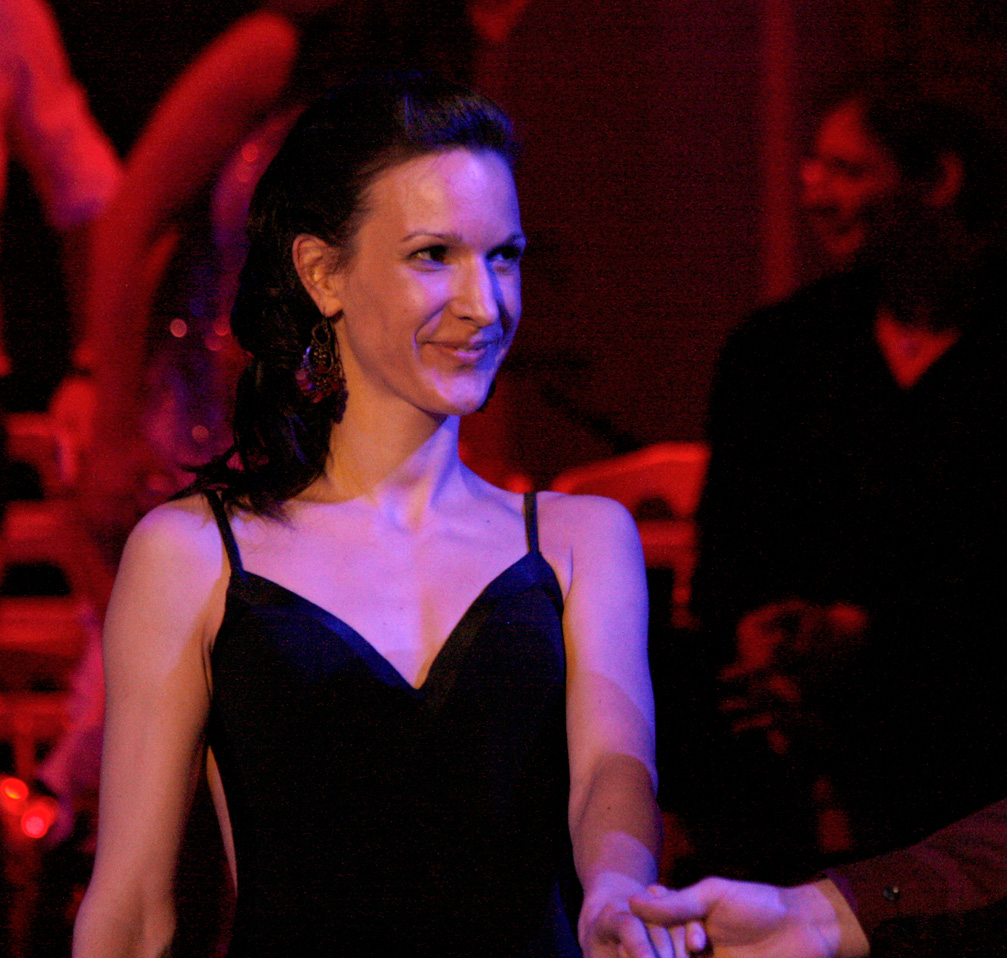 Barbara Fleissner at the charity ball dancer against cancer (Hofburg Imperial Palace, Vienna)